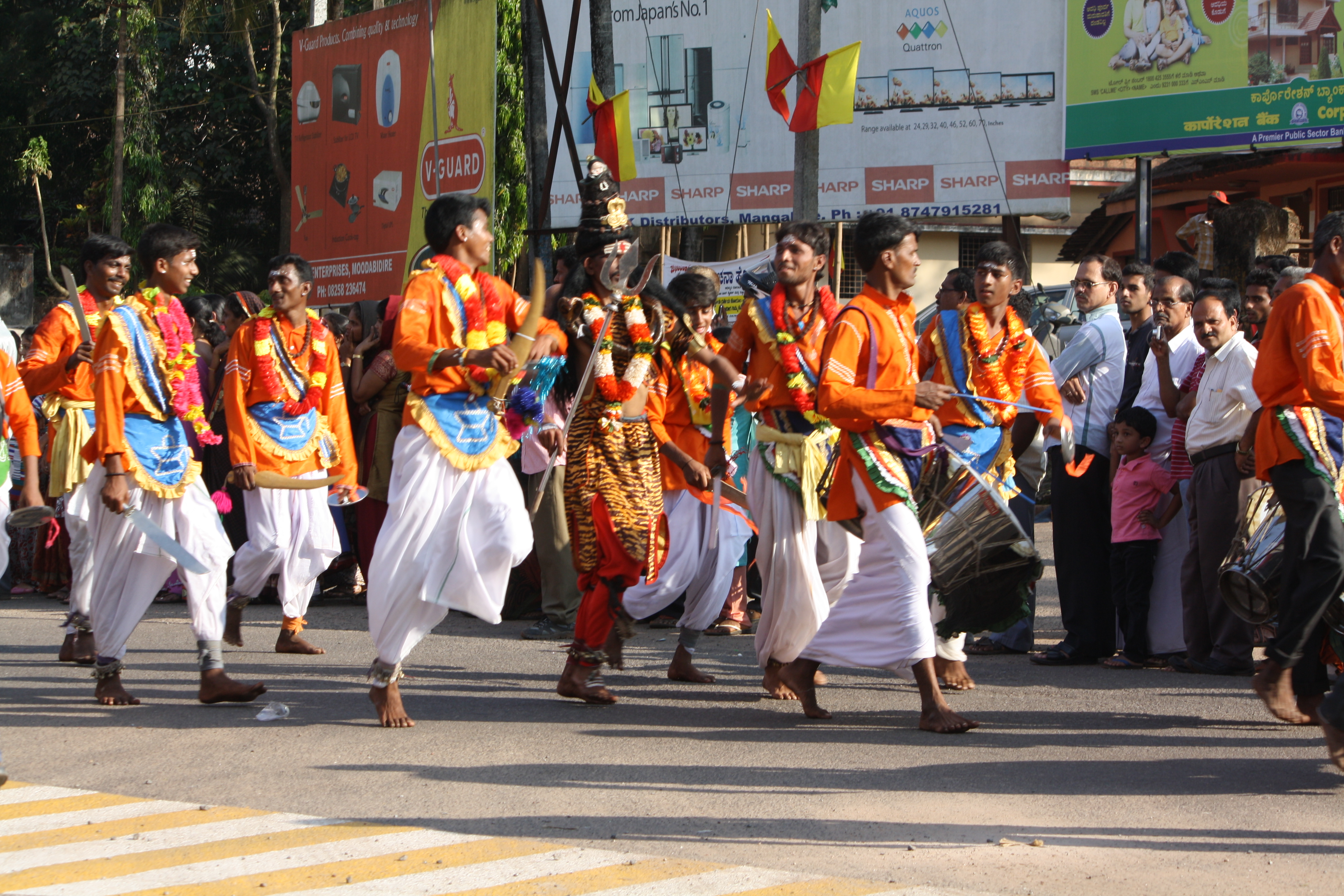 Veerabhadra Kunitha, a kind of folk performance from Karnataka, India ಕನ್ನಡ: ಕರ್ನಾಟಕದ ಜಾನಪದ ಕಲೆ ವೀರಭದ್ರ ಕುಣಿತ